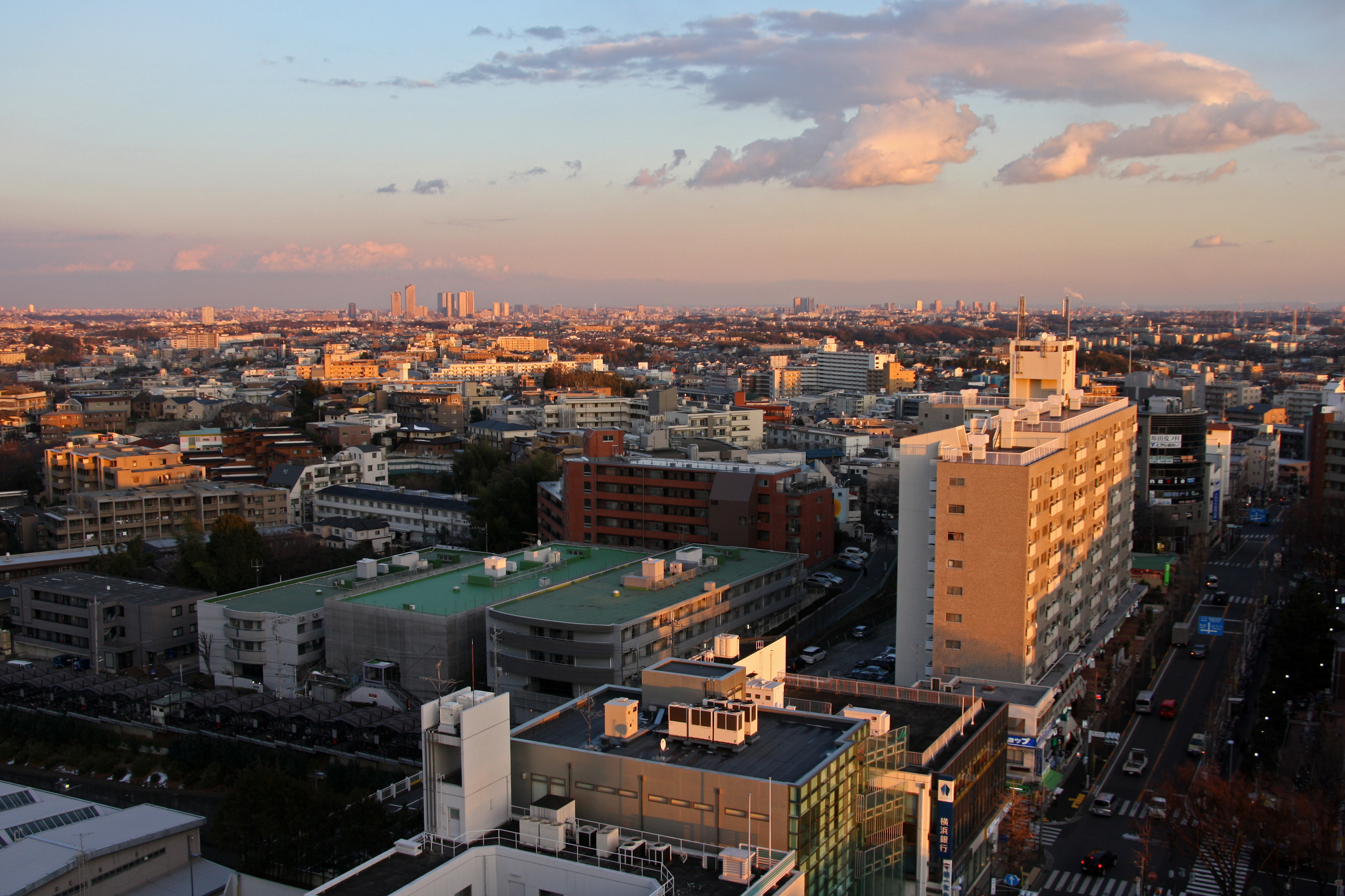 View of Miyamae-ku, Kawasaki, Kanazawa. Seen from Saginuma.